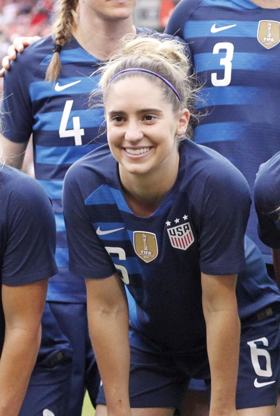 United States vs China June 12, 2018